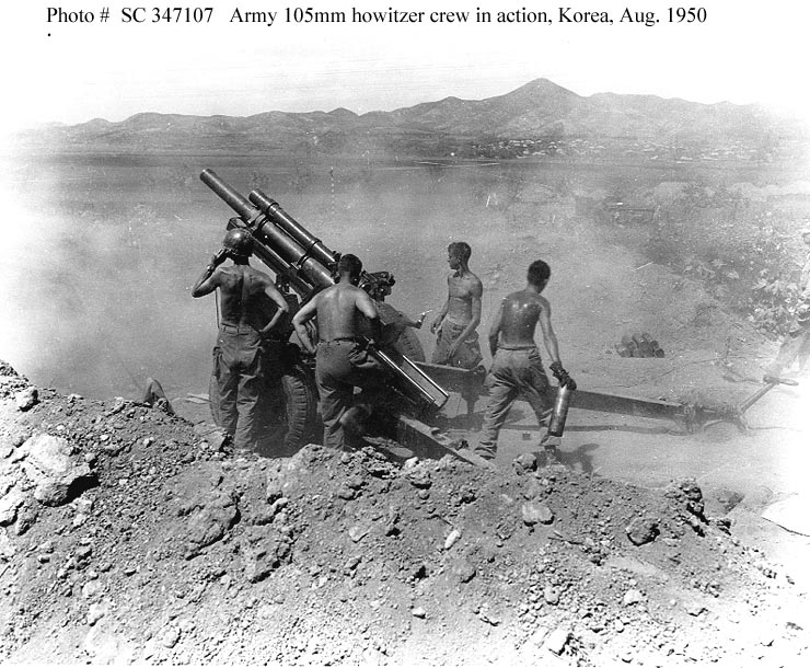 Defense of the Pusan Perimeter, Summer 1950 - Gun crew of the 64th Field Artillery Battalion, 25th Infantry Division, fire a 105mm howitzer on North Korean positions near Uirson, South Korea. Photo #: SC 347107